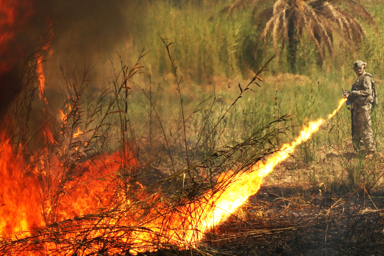 Army Sgt. Joshua Robbins torches an area with a flame thrower in Tarmiyah Qada, Iraq, Aug. 28, 2008. The burning denies terrorists concealment and gives coalition forces at Joint Security Station Mushada East a clear line of sight along a road between Mushada and Tarmiyah. Robbins serves with the 25th Infantry Division's 66th Engineer Company, 2nd Stryker Brigade Combat Team.